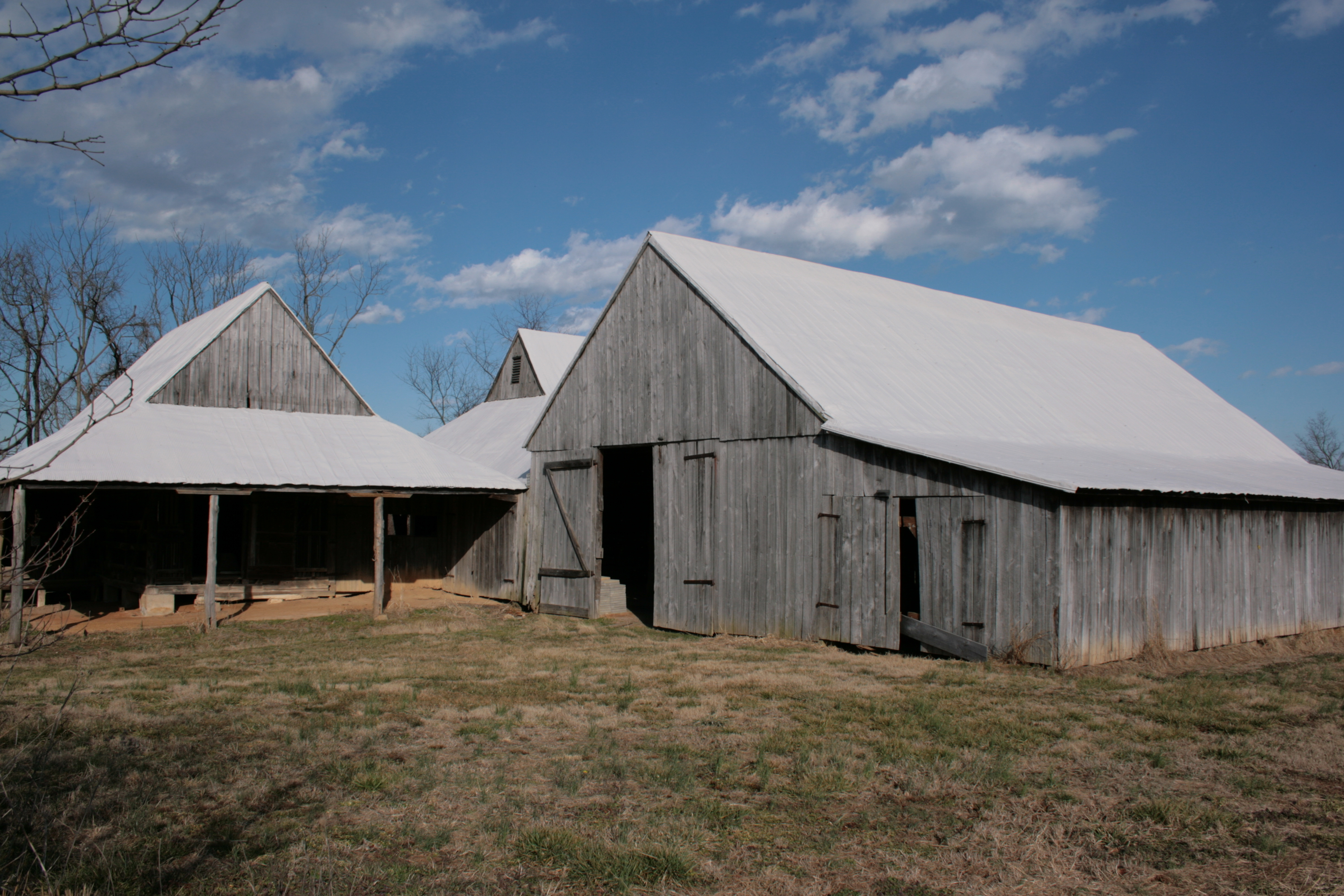 An image of the Bond-Simms Barn. The complex was constructed over 50 years starting sometime between 1835 and 1845.